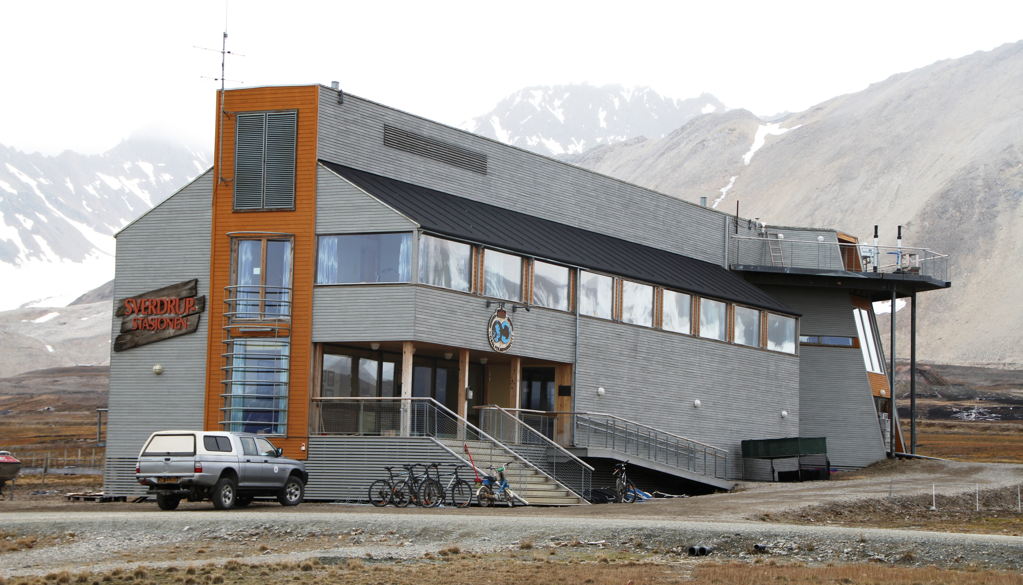 Photo from the science village of Ny-Ålesund, western Spitsbergen. Norwegian Polar Research Institute quarters.